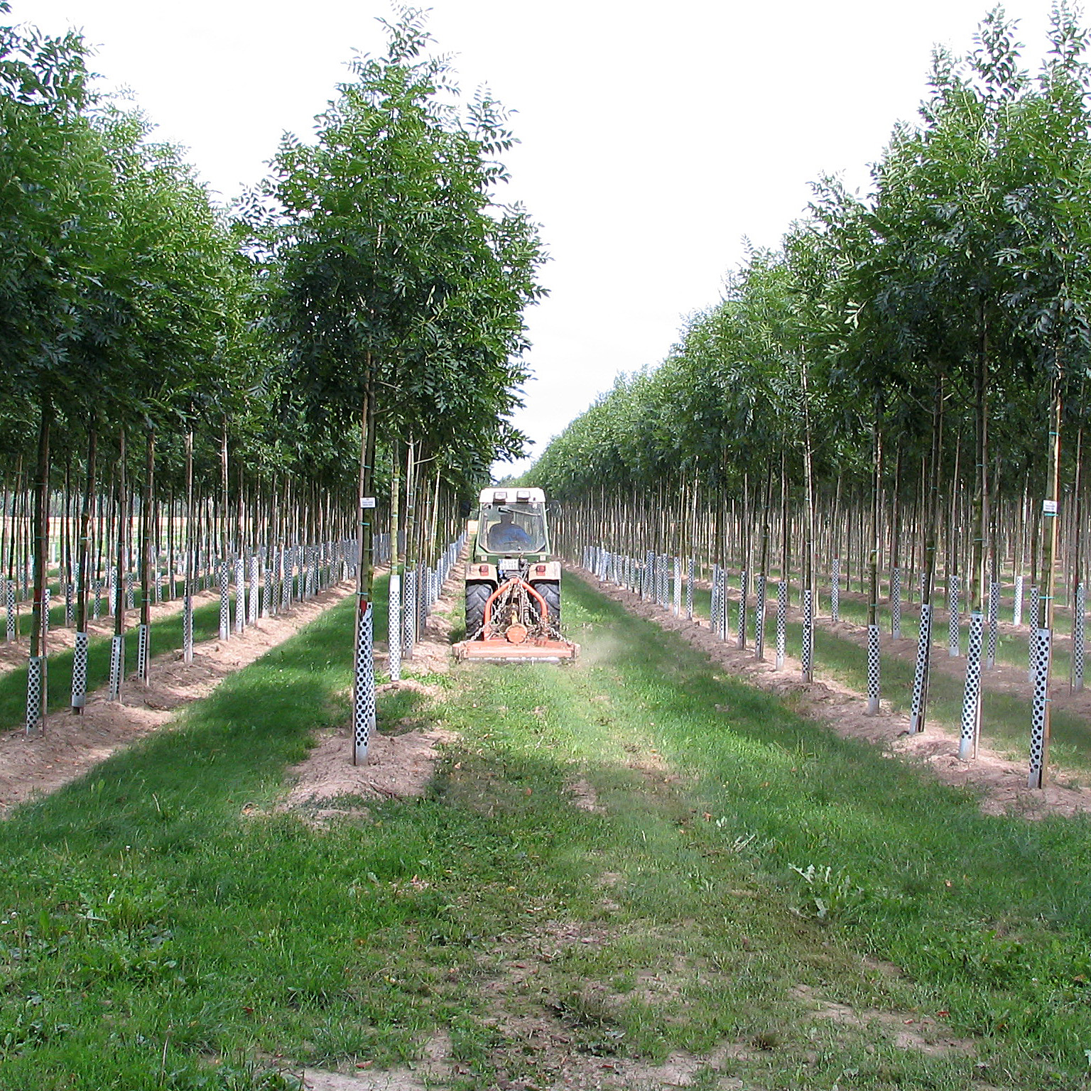 Fraxinus CVS, 2x transplanted, Ley nurseries